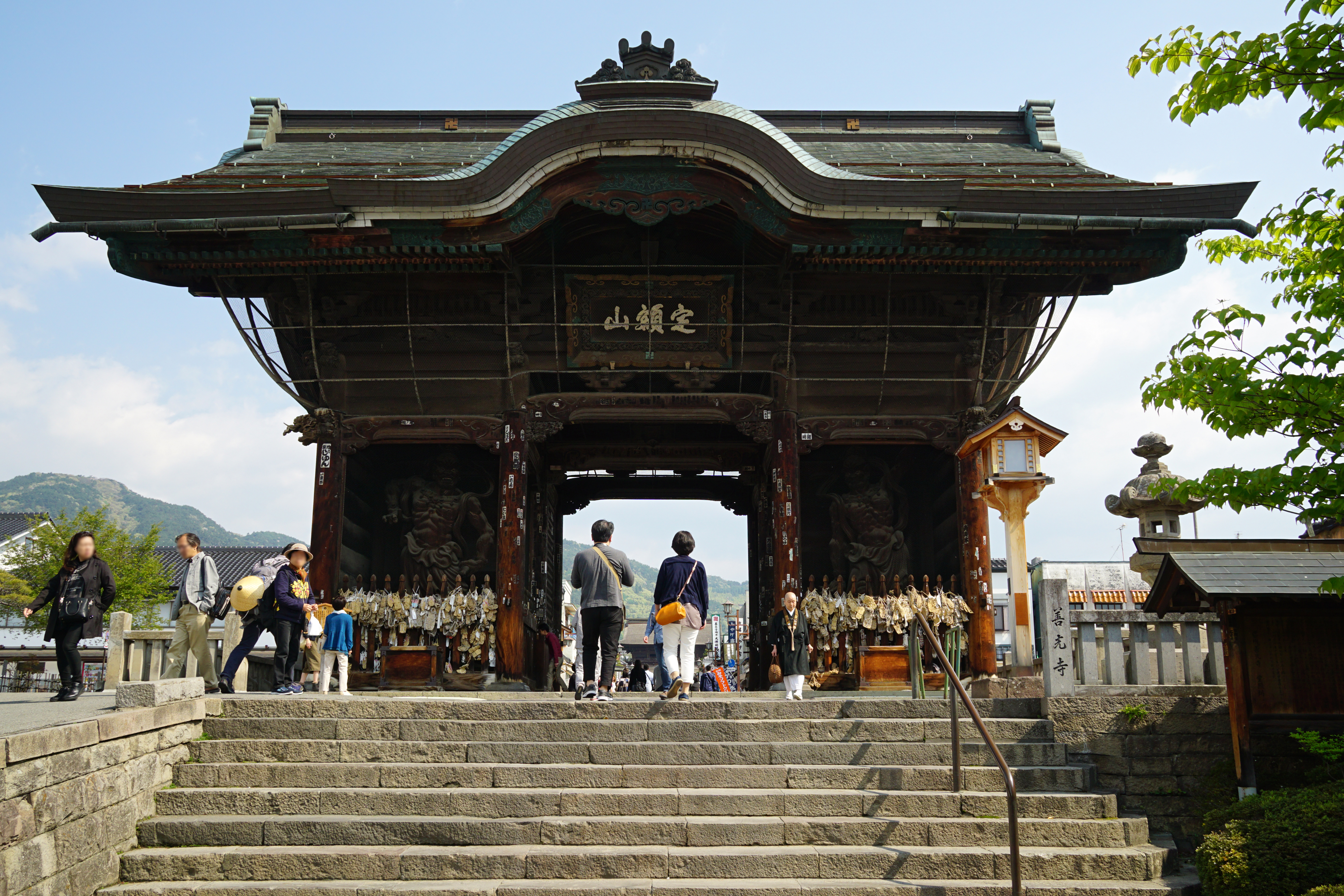 Zenkō-ji in Nagano, Nagano prefecture, Japan.